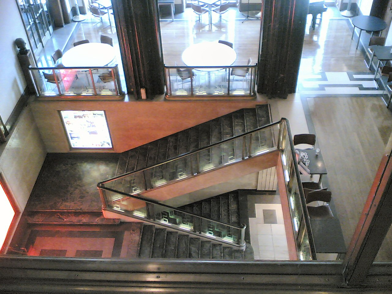 Main staircase in the headquarters building of the Royal Institute of British Architects, 66 Portland Place, London, UK.